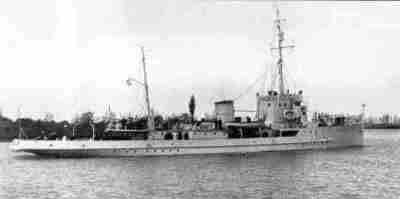 Rastreador A.R.A. "Fournier" M-5